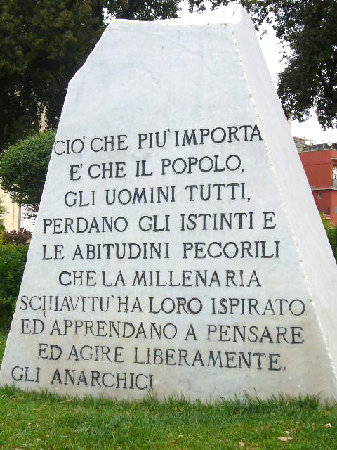 Anarchist monument in Pozzuoli with a quote of Errico Malatesta: "What matters most is that people, all men, loose their sheepish instincts and habits that the millennial slavery inspired them, and they learn to think and act freely. The anarchists."